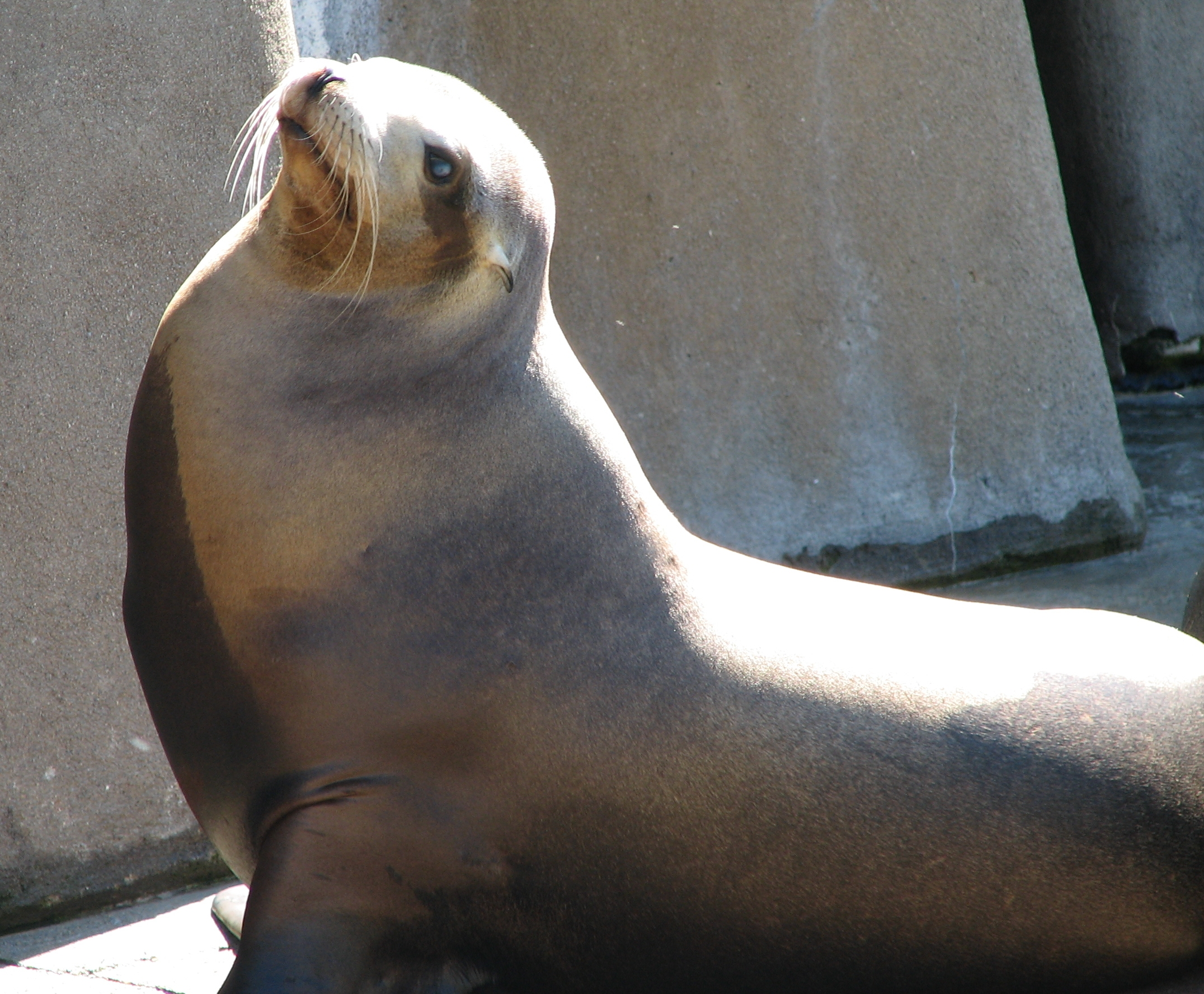 California Sea Lion